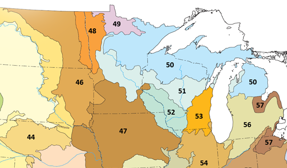 Map of the EPA ecoregions in the Upper Midwest of the United States